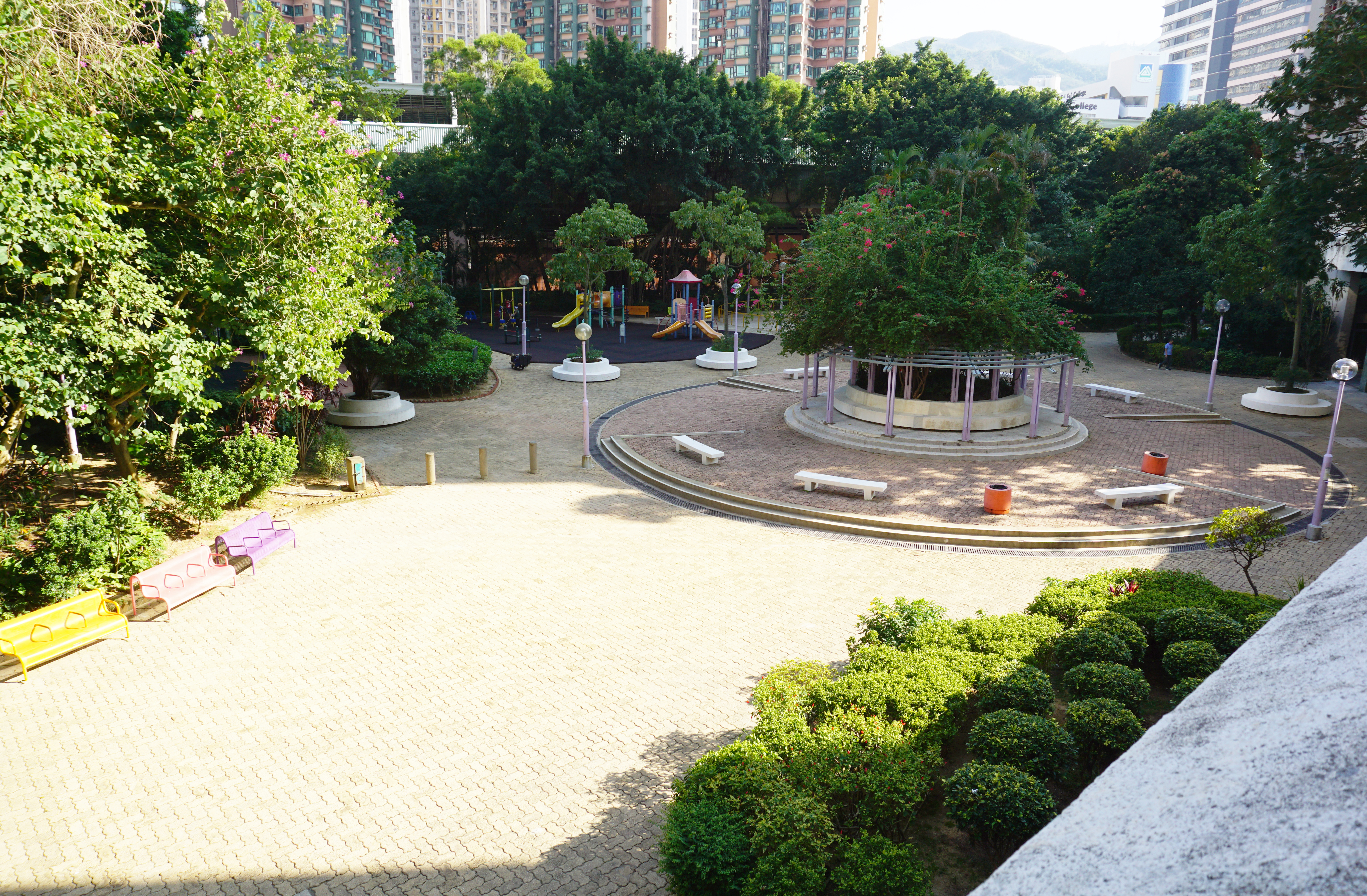 Yue Tin Court in Shatin, Hong Kong.